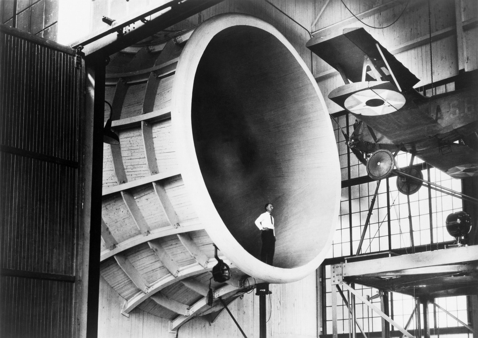 Description (1927) A Langley researcher ponders the future, in mid-1927, of the Sperry M-1 Messenger, the first full-scale airplane tested in the Propeller Research Tunnel. Standing in the exit cone is Elton W. Miller, Max M. Munk's successor as chief of aerodynamics. Center: LARC Image # : L-01892